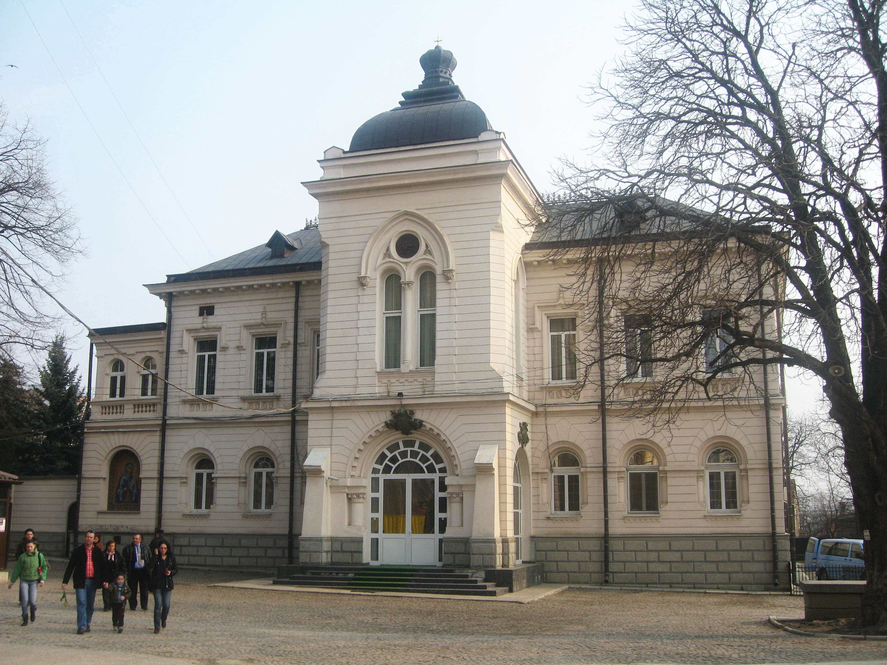 Metropolitan Palace in Iași, Romania 03